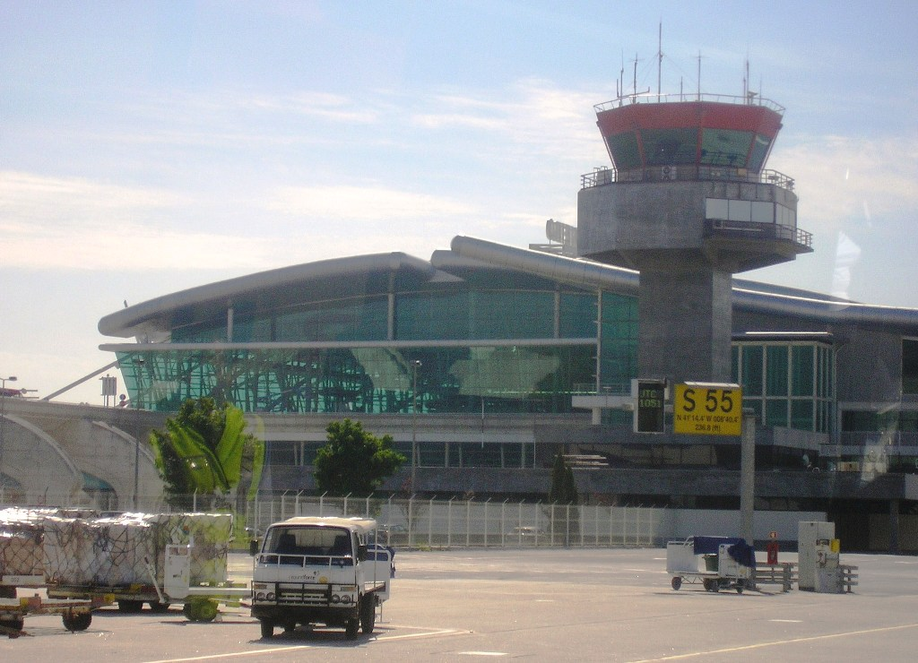 International airport in Porto, Portugal